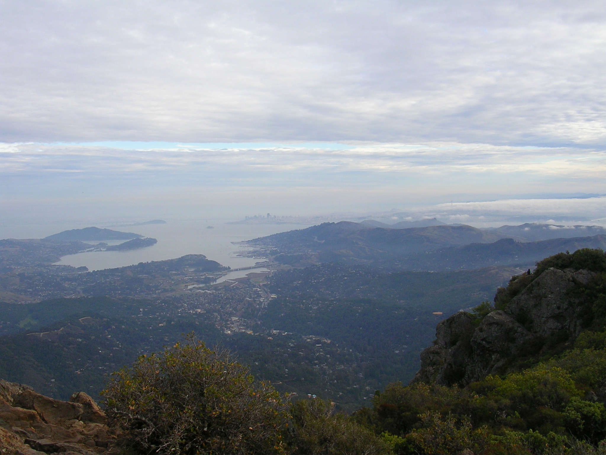 Southeast view from Mount Tamalpais on an overcast day, showing Richardson Bay (part of the San Francisco Bay), the communities of Mill Valley, Tiburon, and Sausalito, Angel, Alcatraz, and Treasure Island, the southern Marin Hills, and in the distance, San Francisco, and its skyline.